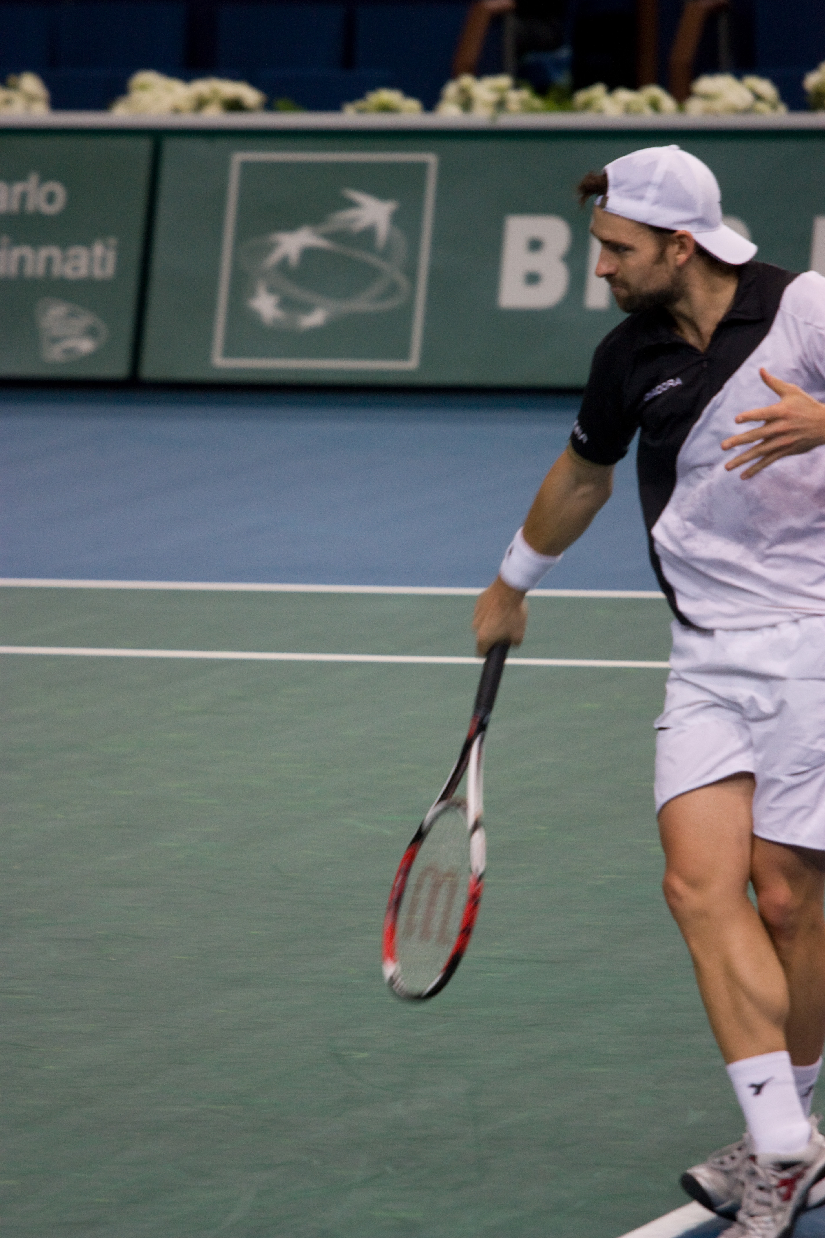 Nicolas Kiefer against David Nalbandian at the 2008 BNP Paribas Masters